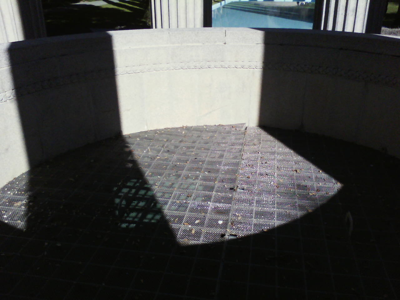 Water no longer flows through the water temple. A grate was placed in the entrance to keep intruders out.